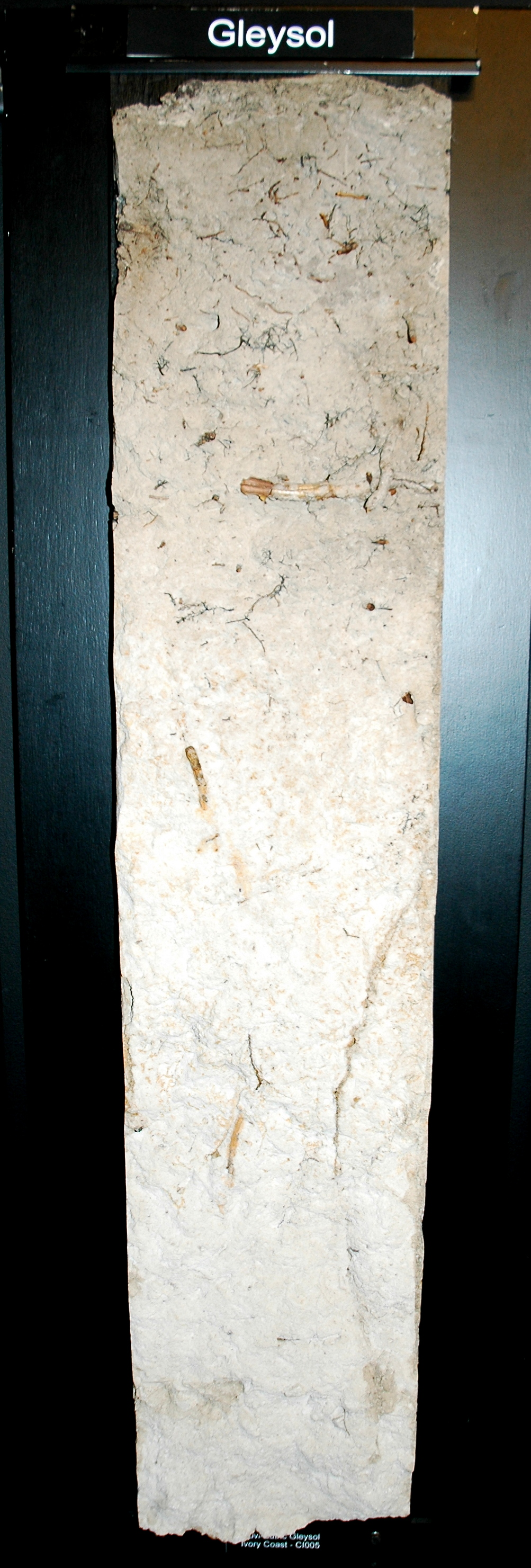 Soil profile of a Gleysol